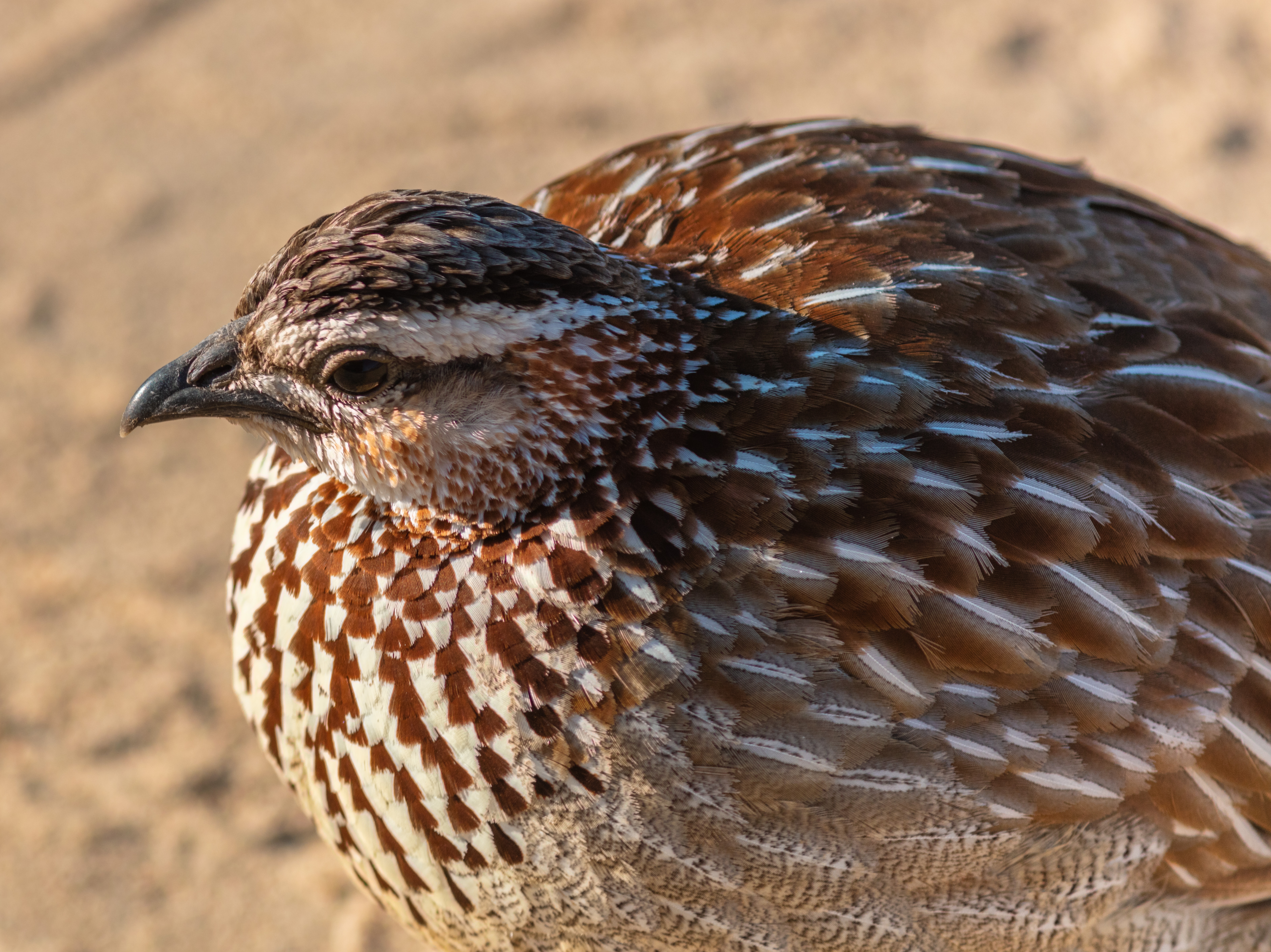 Crested francolin (Dendroperdix sephaena), Kruger National Park, South Africa